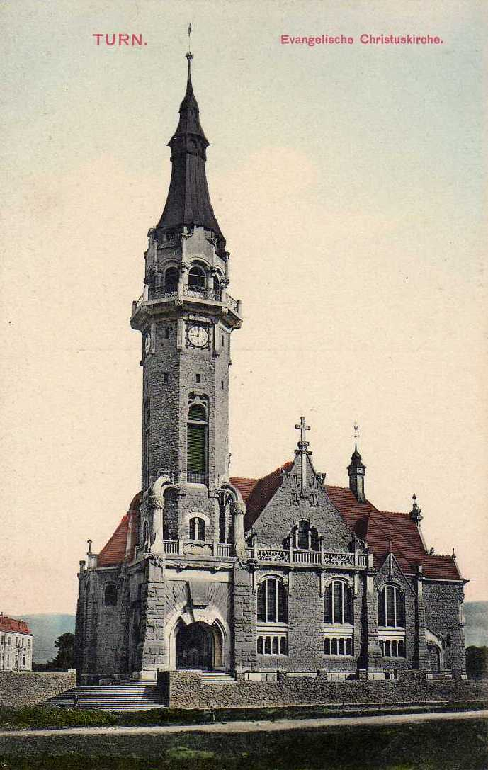 Protestant church in Trnovany (Teplice), built between 1899-1905 according to plans of the architectural firm of Schilling & Graebner.